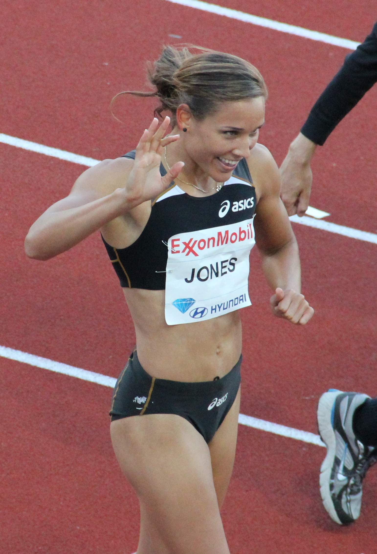 Lolo Jones after winning the 2010 Bislett Games 100 m Hurdles in a season best 12.66